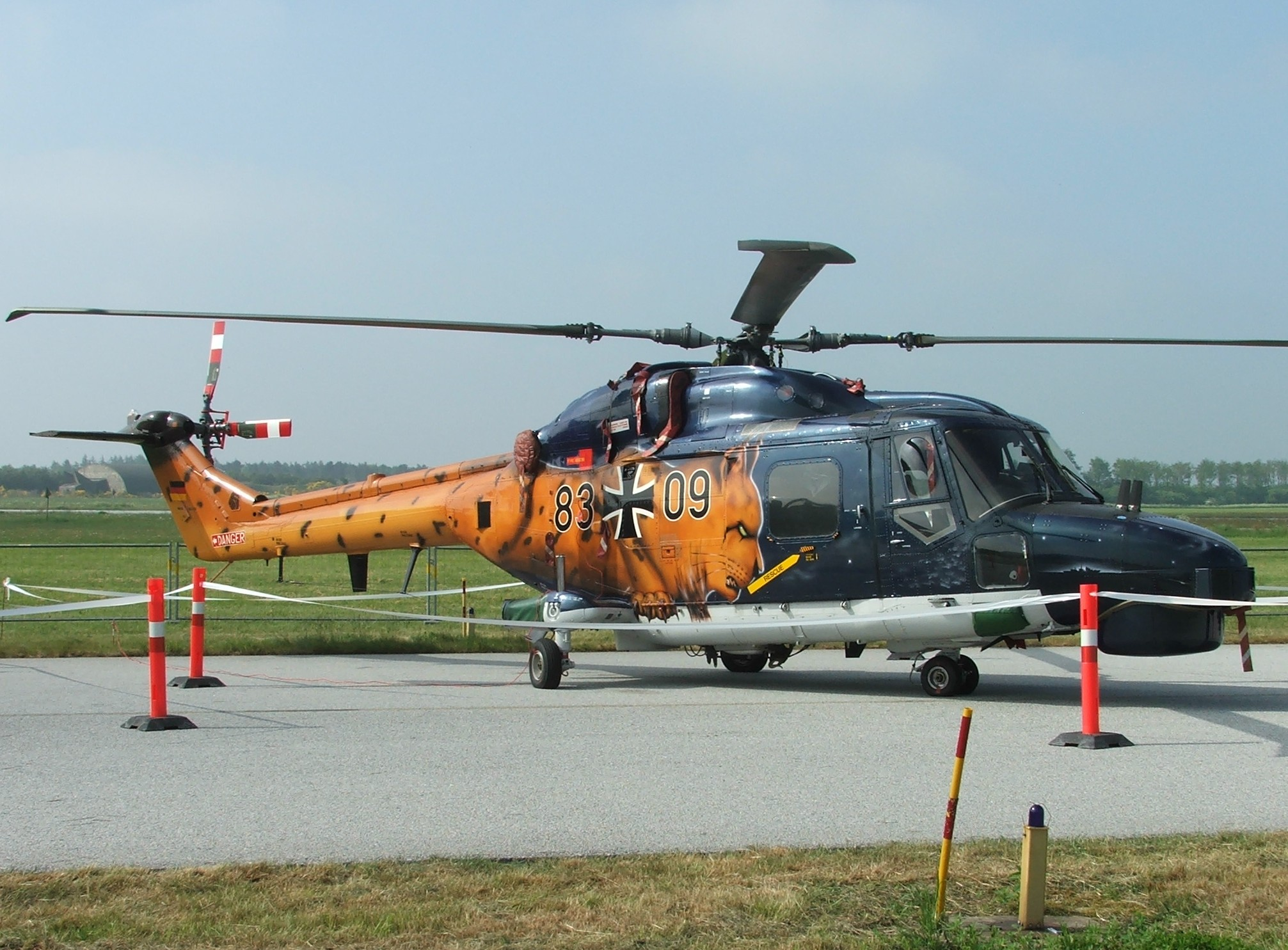 German Navy (Bundesmarine) Westland Lynx Mk.88A (serial no. 83+09). Skrydstrup Air Force Base, Denmark. 2006. /PAJ